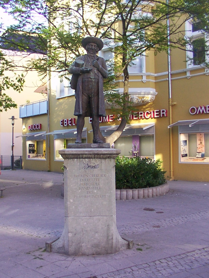 Fritken-Oberdiek-Memorial in town of Herford, District of Herford, North Rhine-Westphalia, Germany.